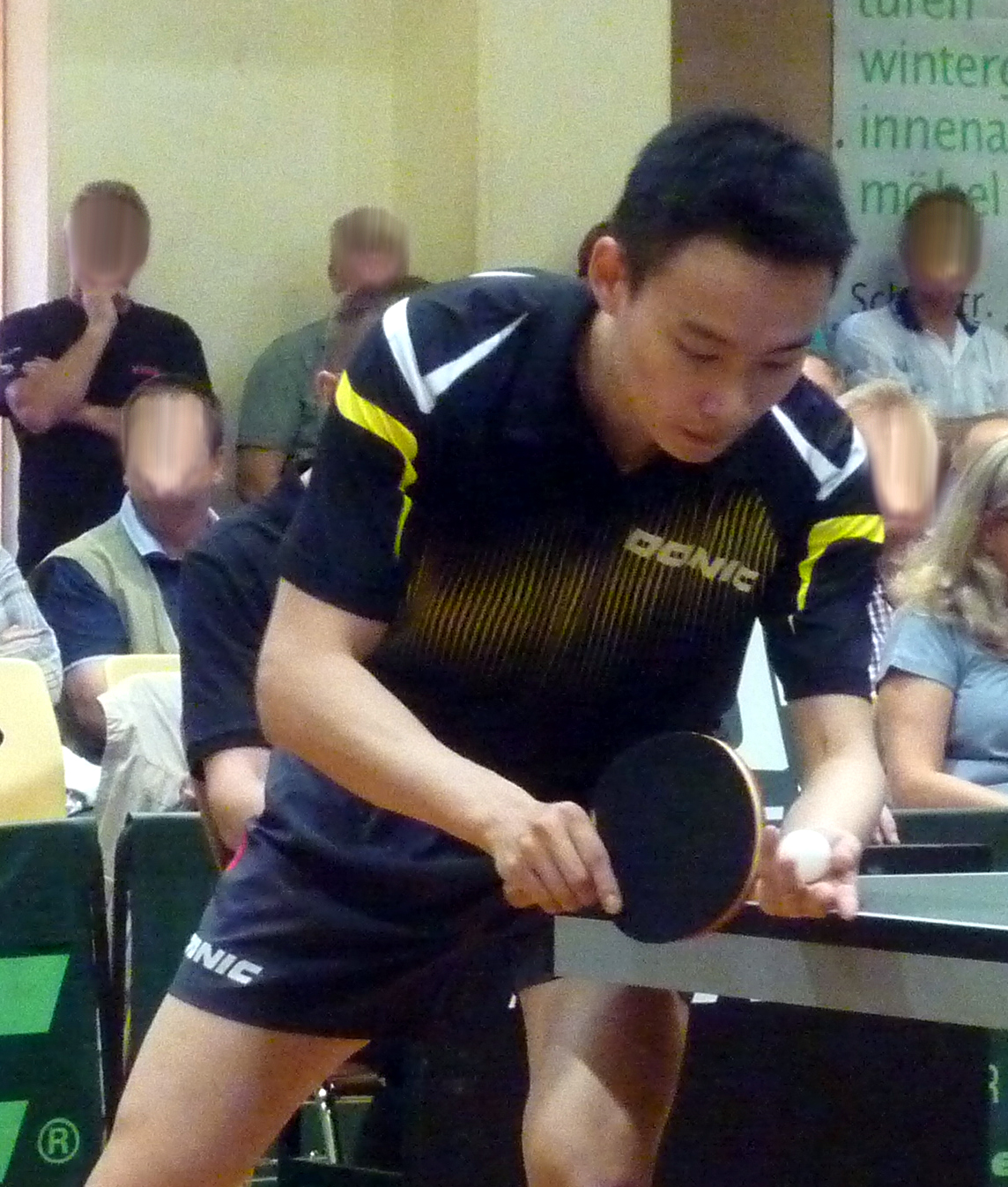 Table Tennis Player Wang Xi (2013)